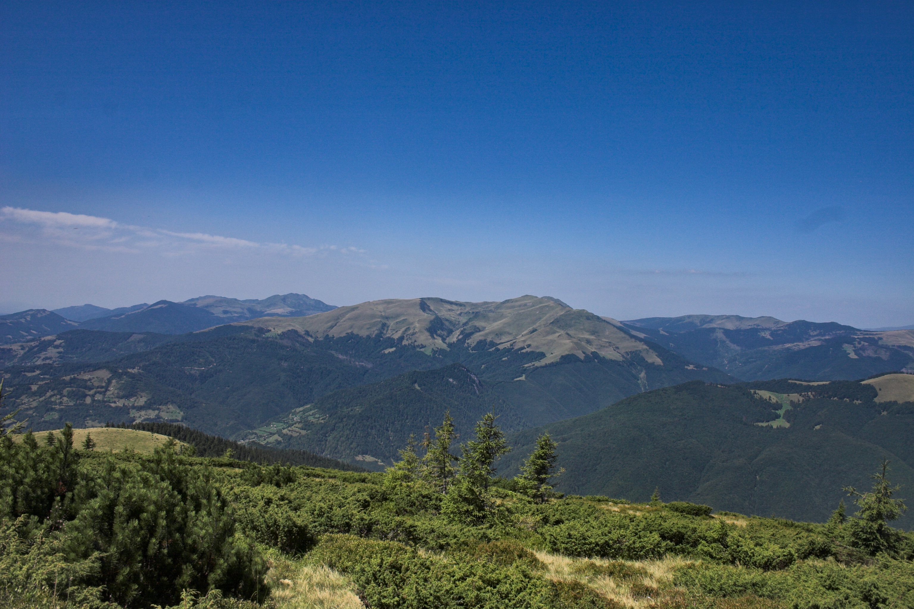 View to Farcău Massif in Maramureş Mountains from opposite edge in southeast.